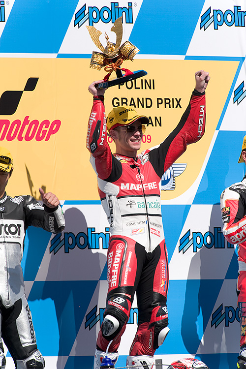 Alvaro Bautista at 2009 Motegi podium